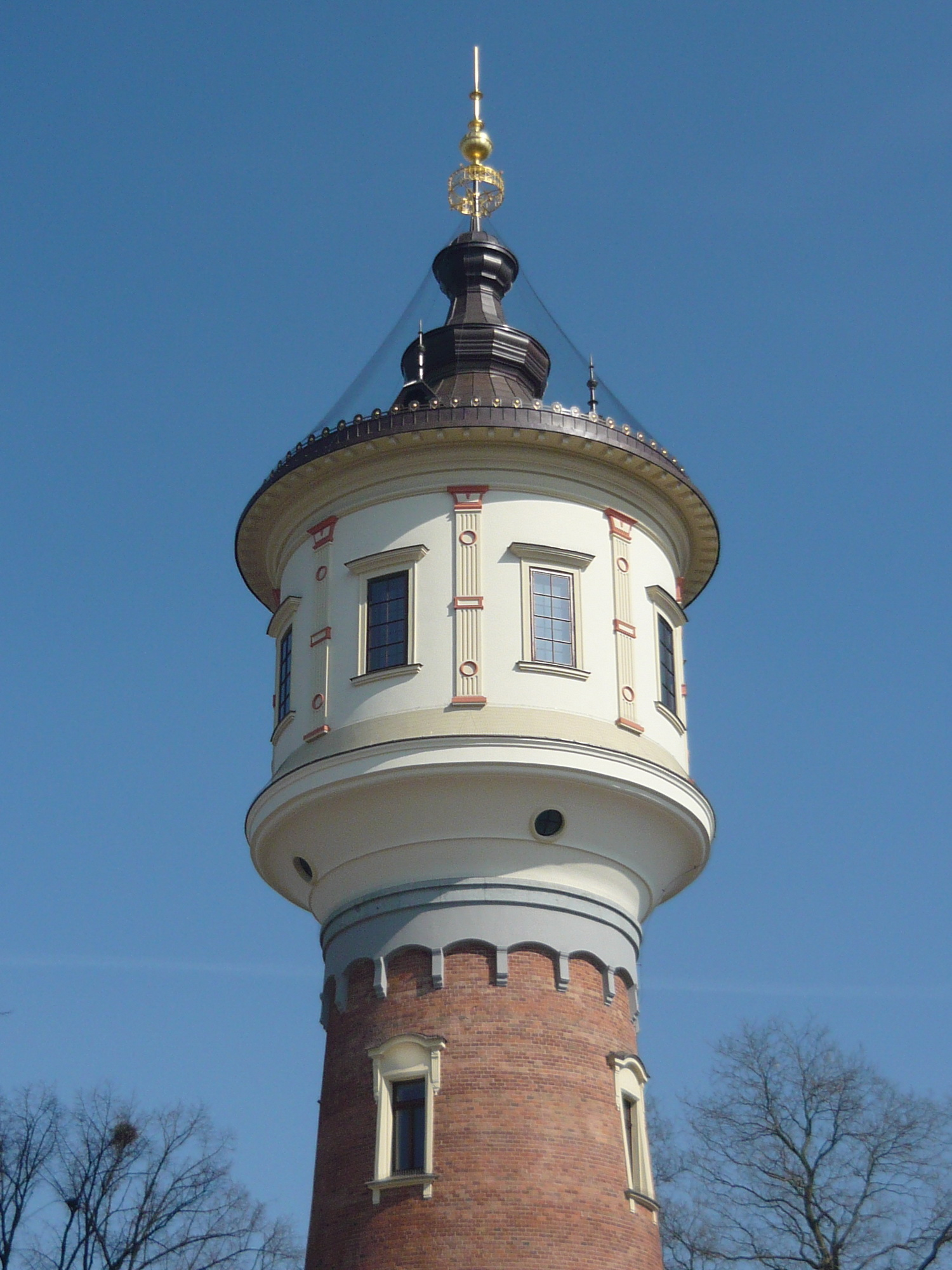 Libeň water tower, 1904, Praha 8, Davídkova street